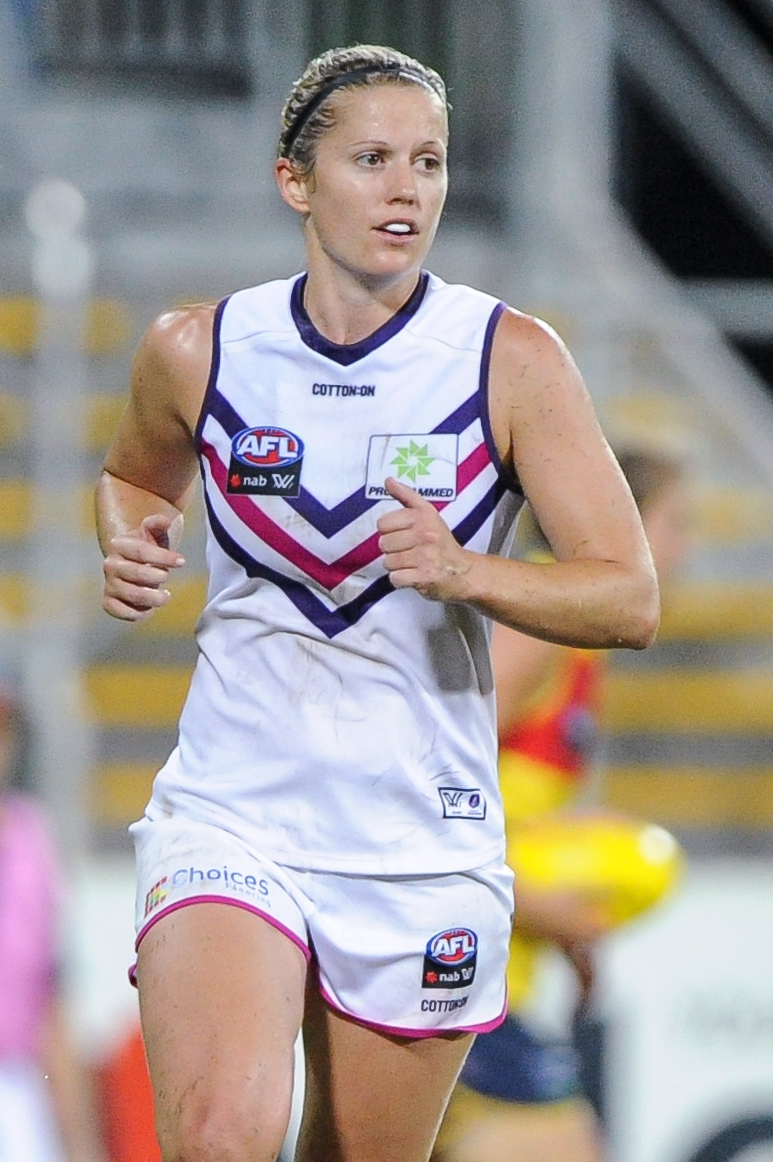 Amy Lavell in the AFL Women's preseason match between the Adelaide Football Club and Fremantle Football Club on 20 January 2018 at TIO Stadium.